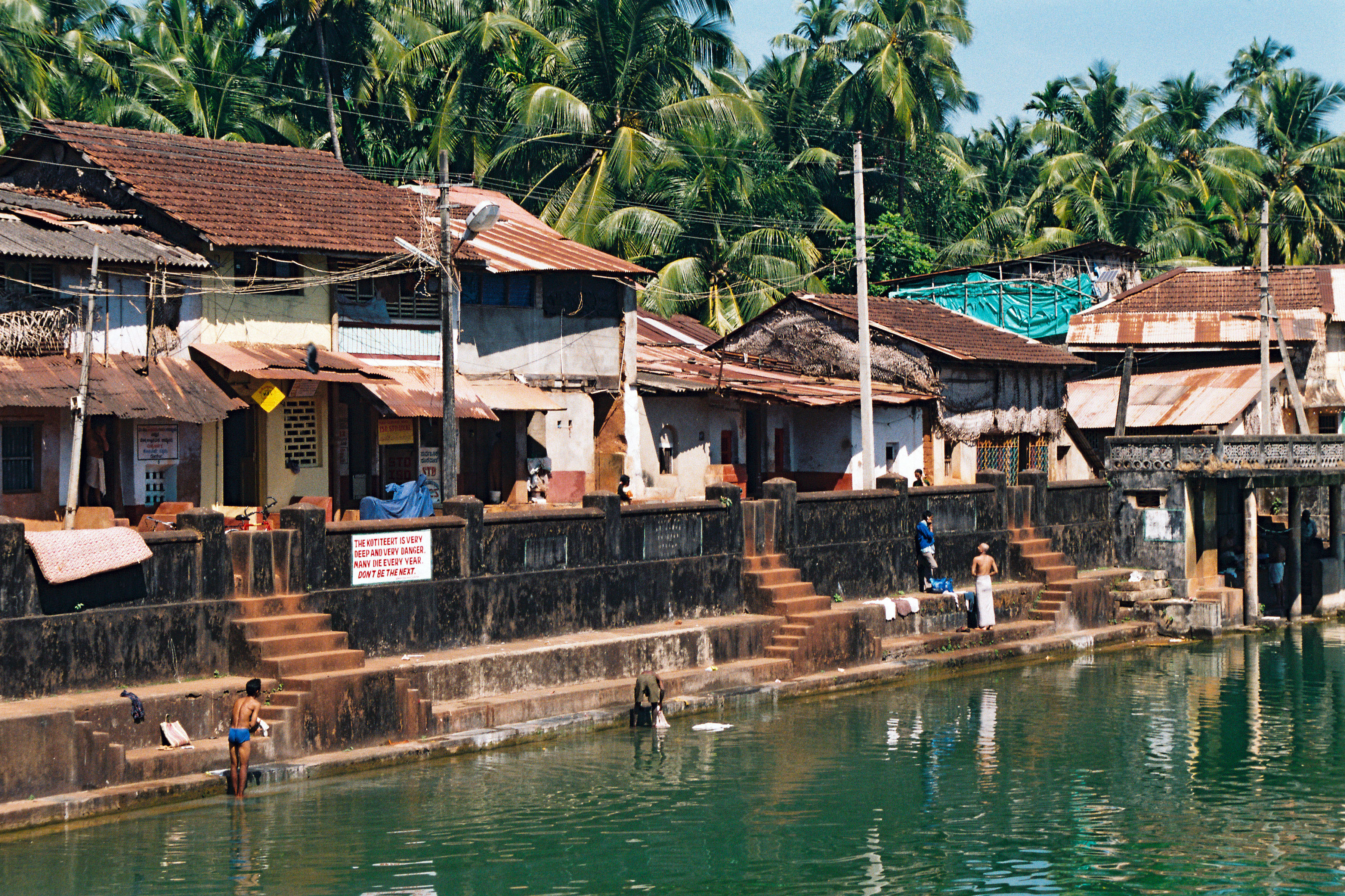 A public baths in the centre of the town, Gokarna, India